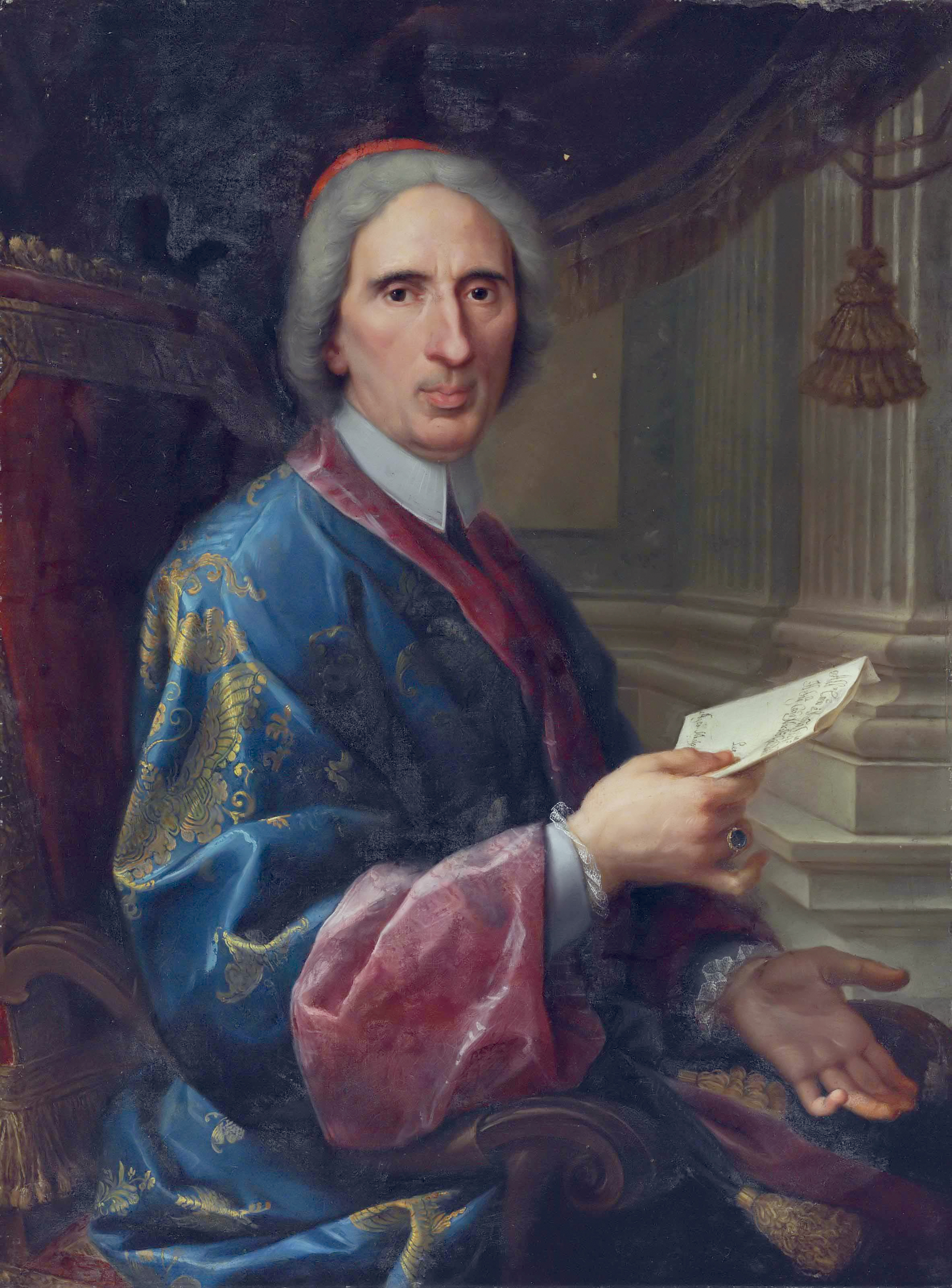 Cardinal Niccolò del Giudice (1660-1743) oil on canvas 99.3 x 74 cm signed c.r.: All' Csmo è Rsmo Sig.re: / Il Sig.re Card.Nicolo Giudice / Lex / Agos. Massu...